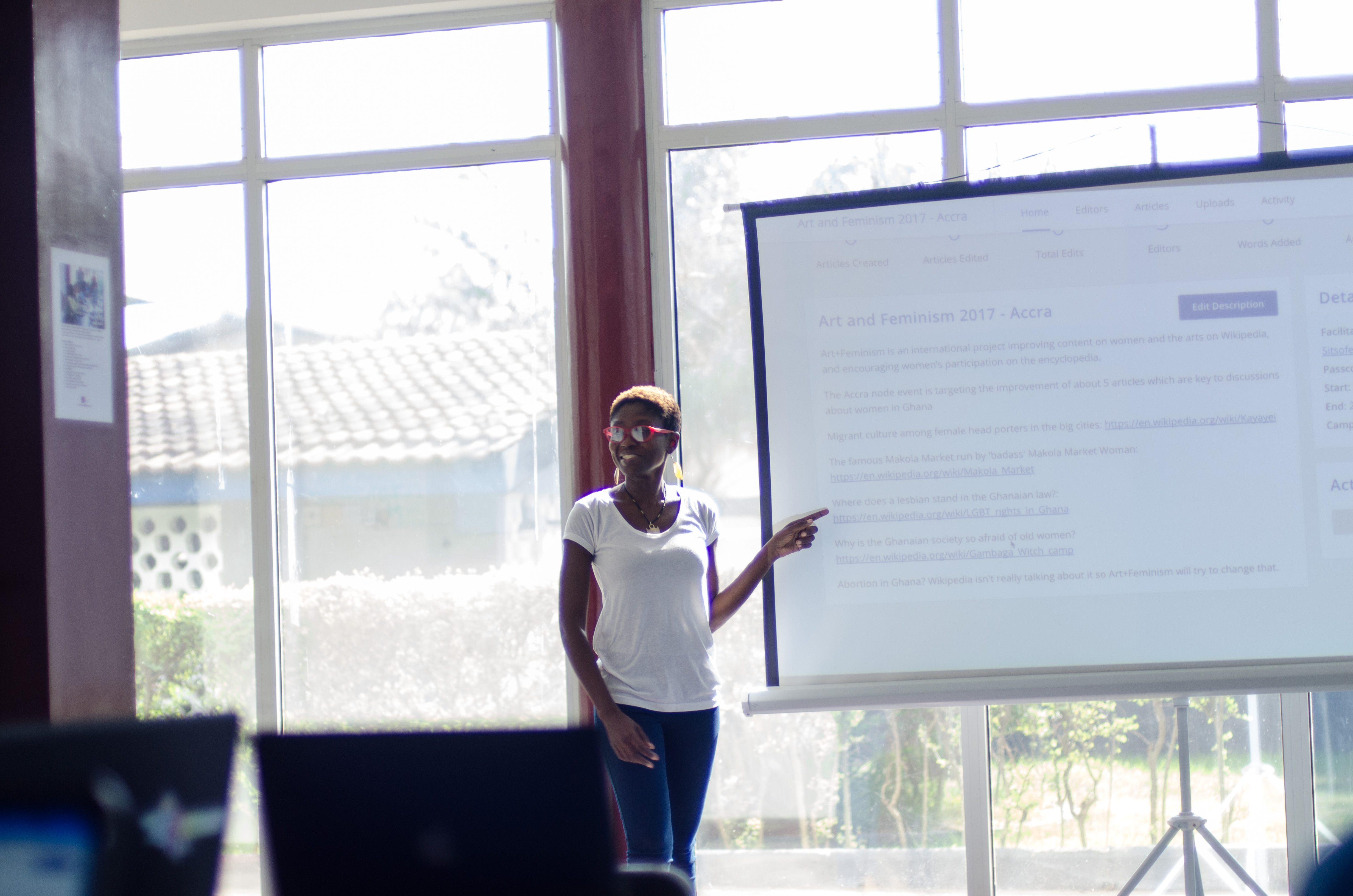 Wikimedia Ghana User Group held a workshop on editing articles on Artandfeminism on Wikipedia #NowEditingAF #NowEditingWikipedia